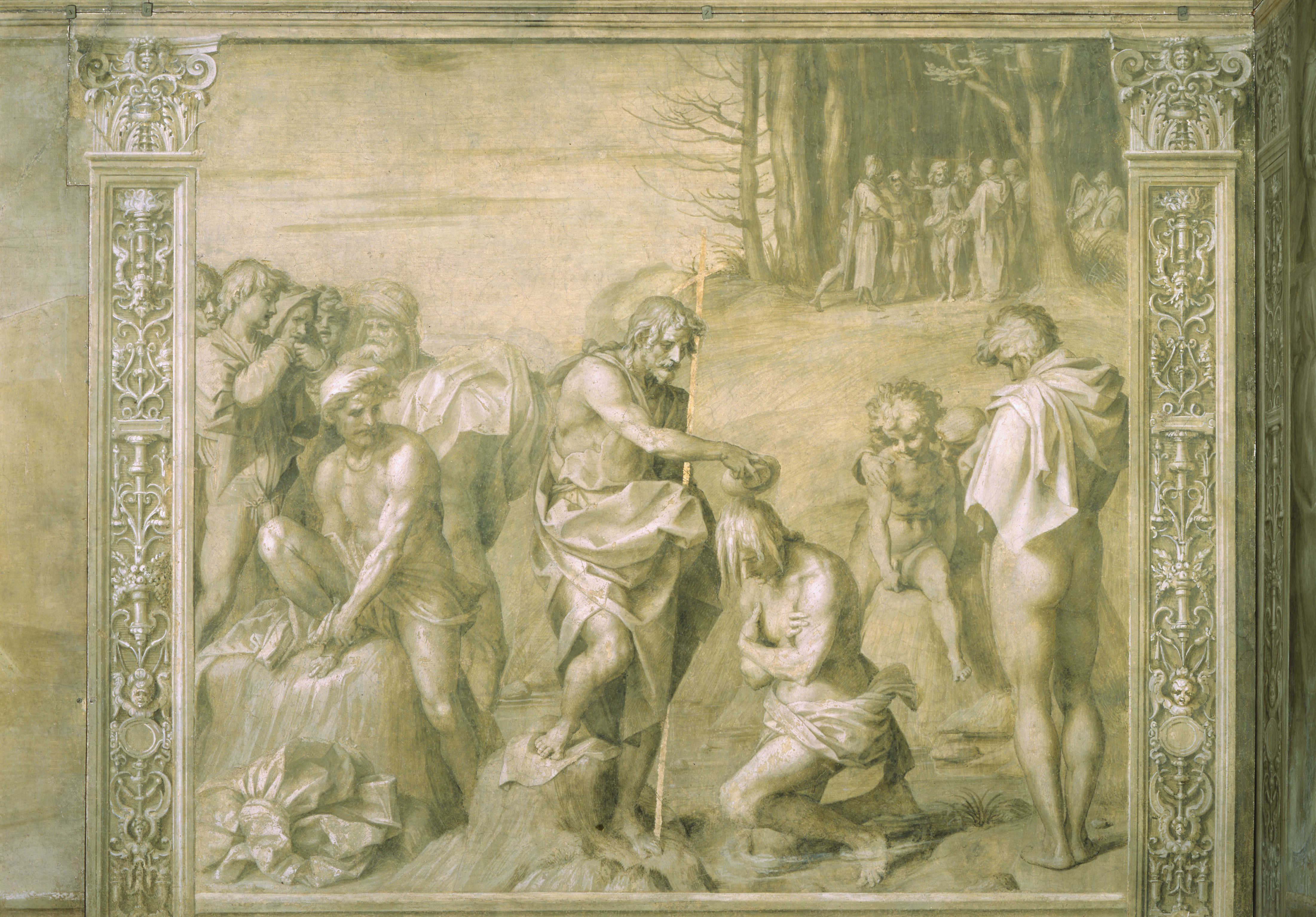 «Battesimo della gente» by Andrea del Sarto; grisaille fresco